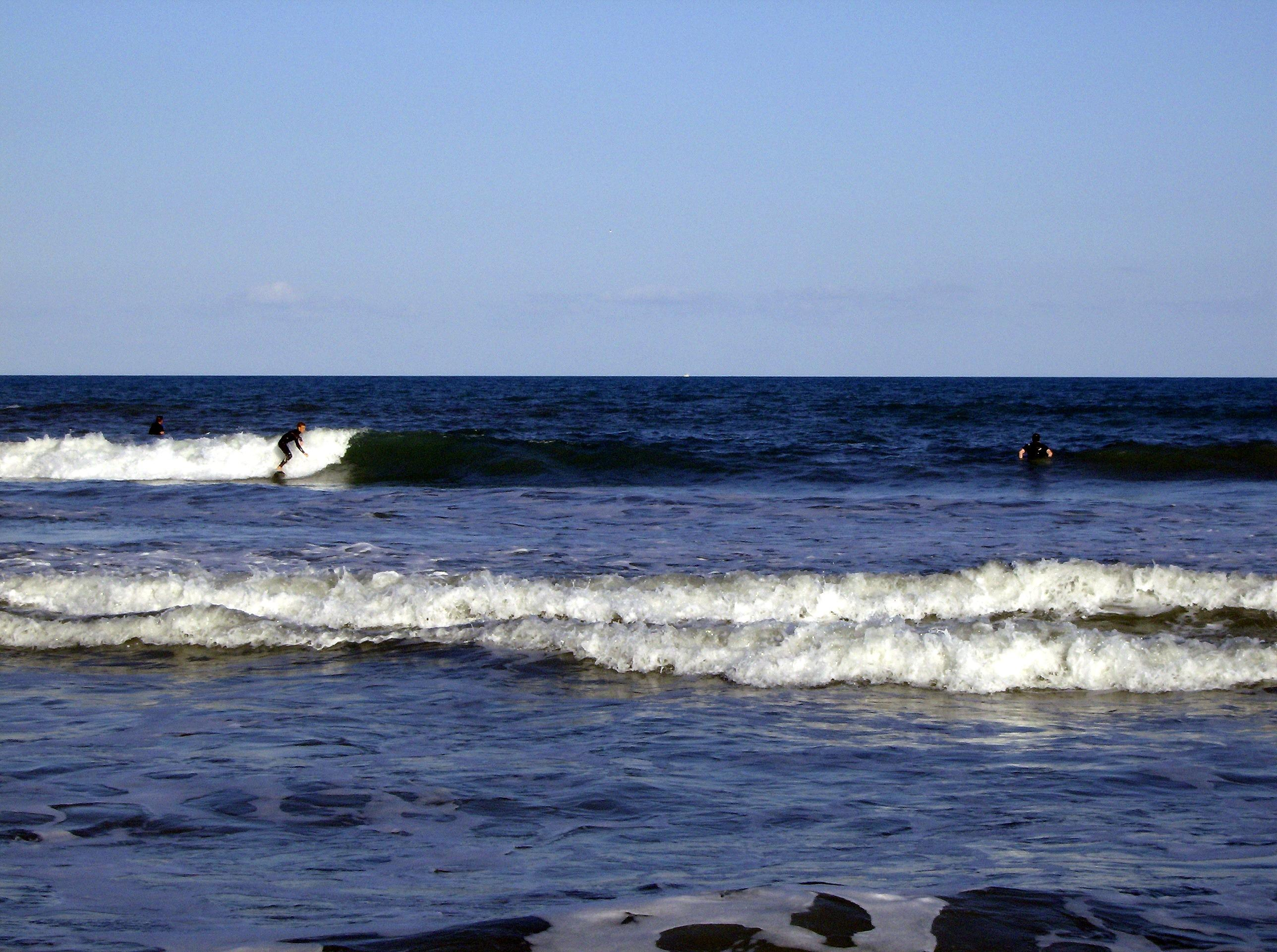 Surfing off Cocoa Beach Florida